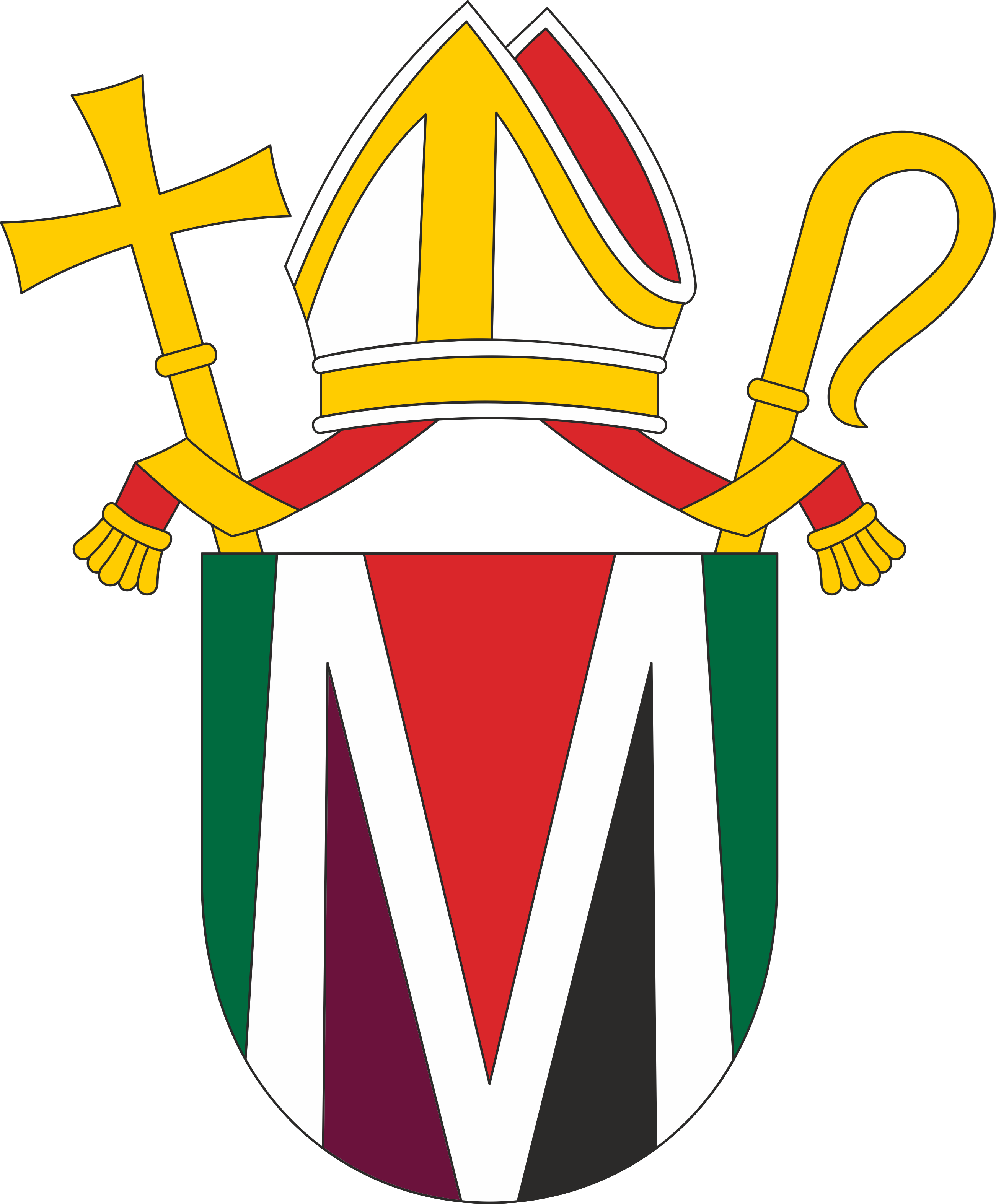 Coat of arms of the Aposltolic Vicariate of Northern Arabia